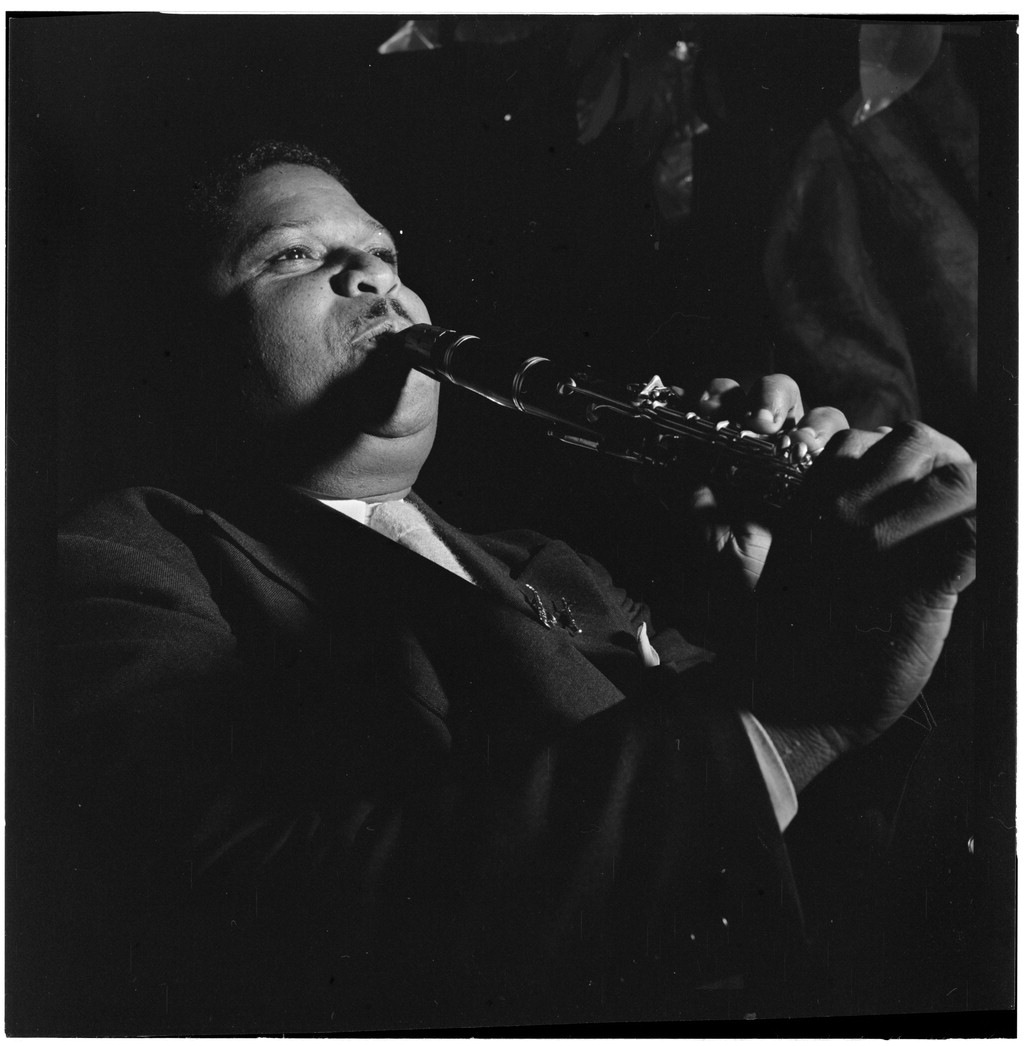 Cecil Scott, Ole South, New York, N.Y., ca. Oct. 1946 (Photograph by William P. Gottlieb)